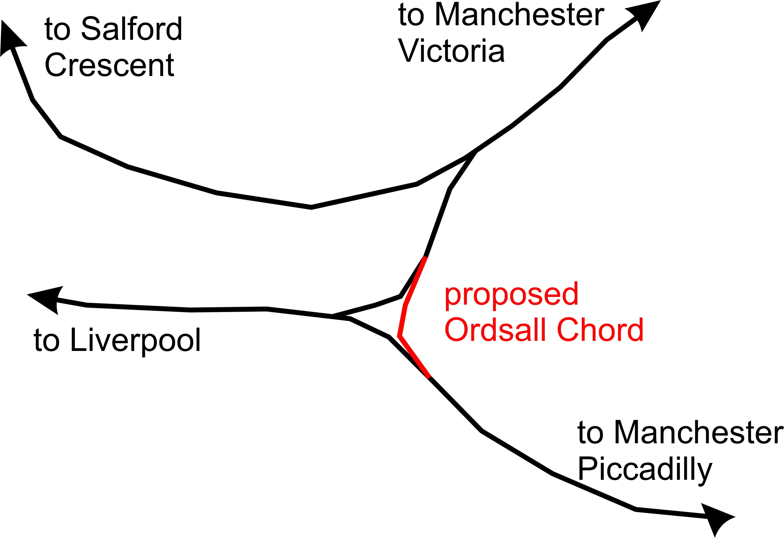 Ordsall Chord layout, Manchester